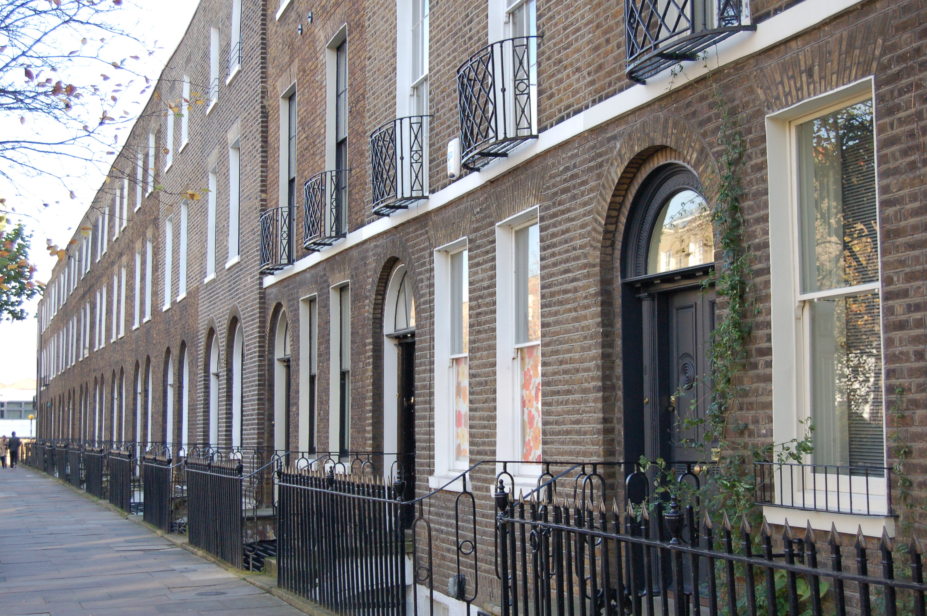 Sutton Place, Hackney. November 2005. Photographer: Kevin Thompson (Grade II Georgian Terrace from about 1790-1806)